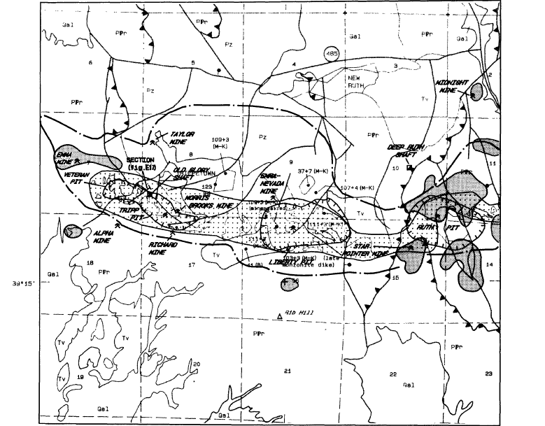 Ely Mine Locations